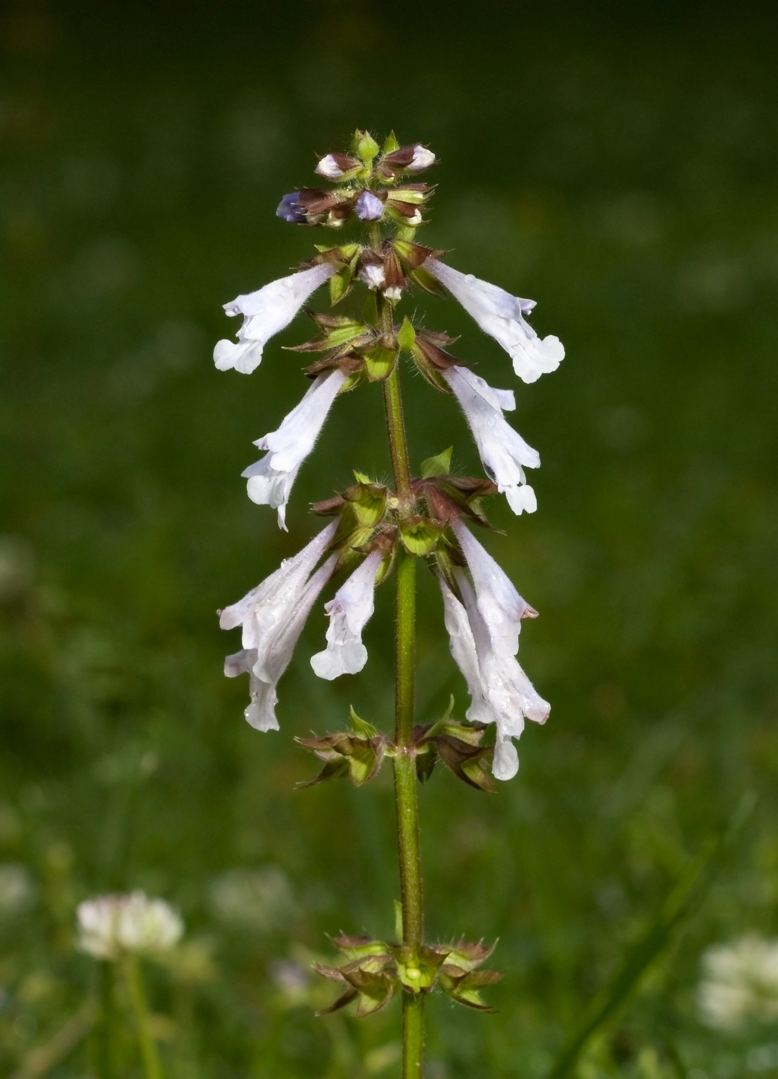 Lyre-leaf sage (Salvia lyrata) in Shelby Park, Nashville, Tennessee